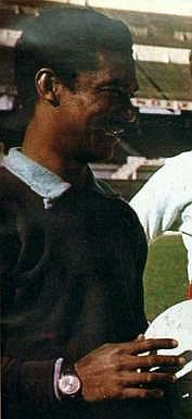 Valdir Pereira, known as Didi, former Brazilian player